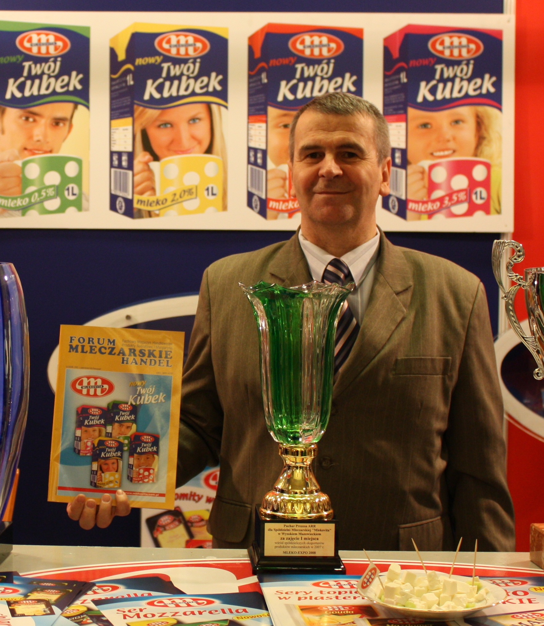 Dariusz Sapiński, Prezes Mlekovita podczas targów Mleko-Expo 2008